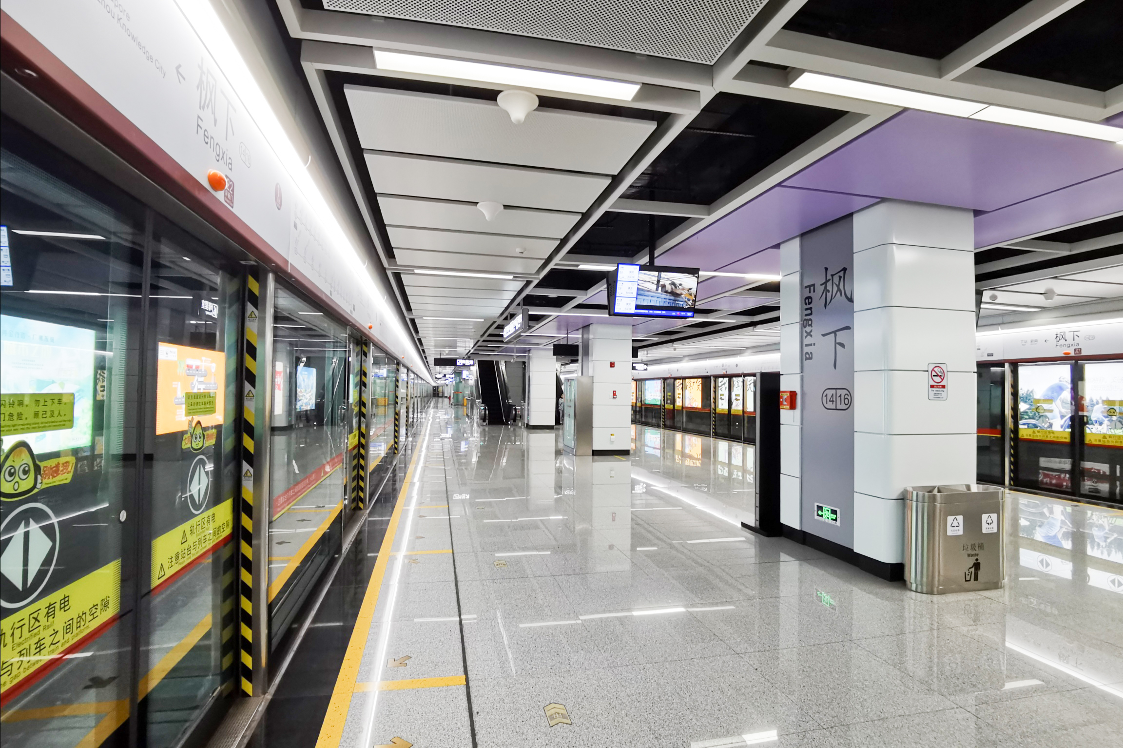 广州地铁枫下站